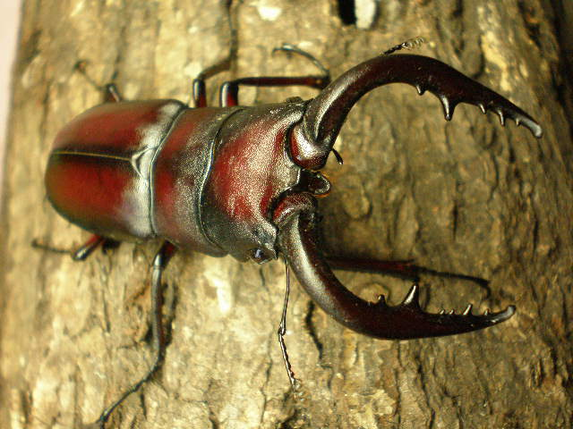 Prosopocoilus